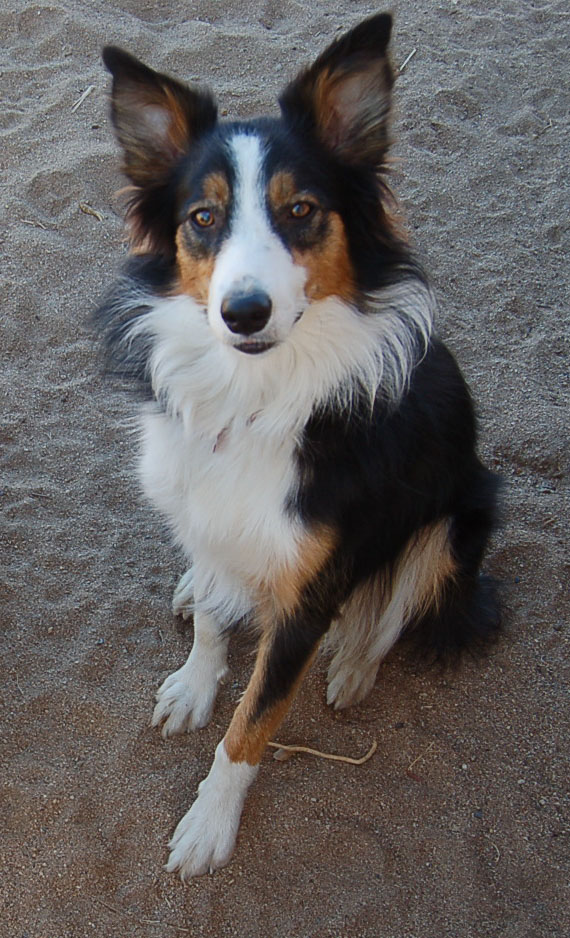 Tri color border collie